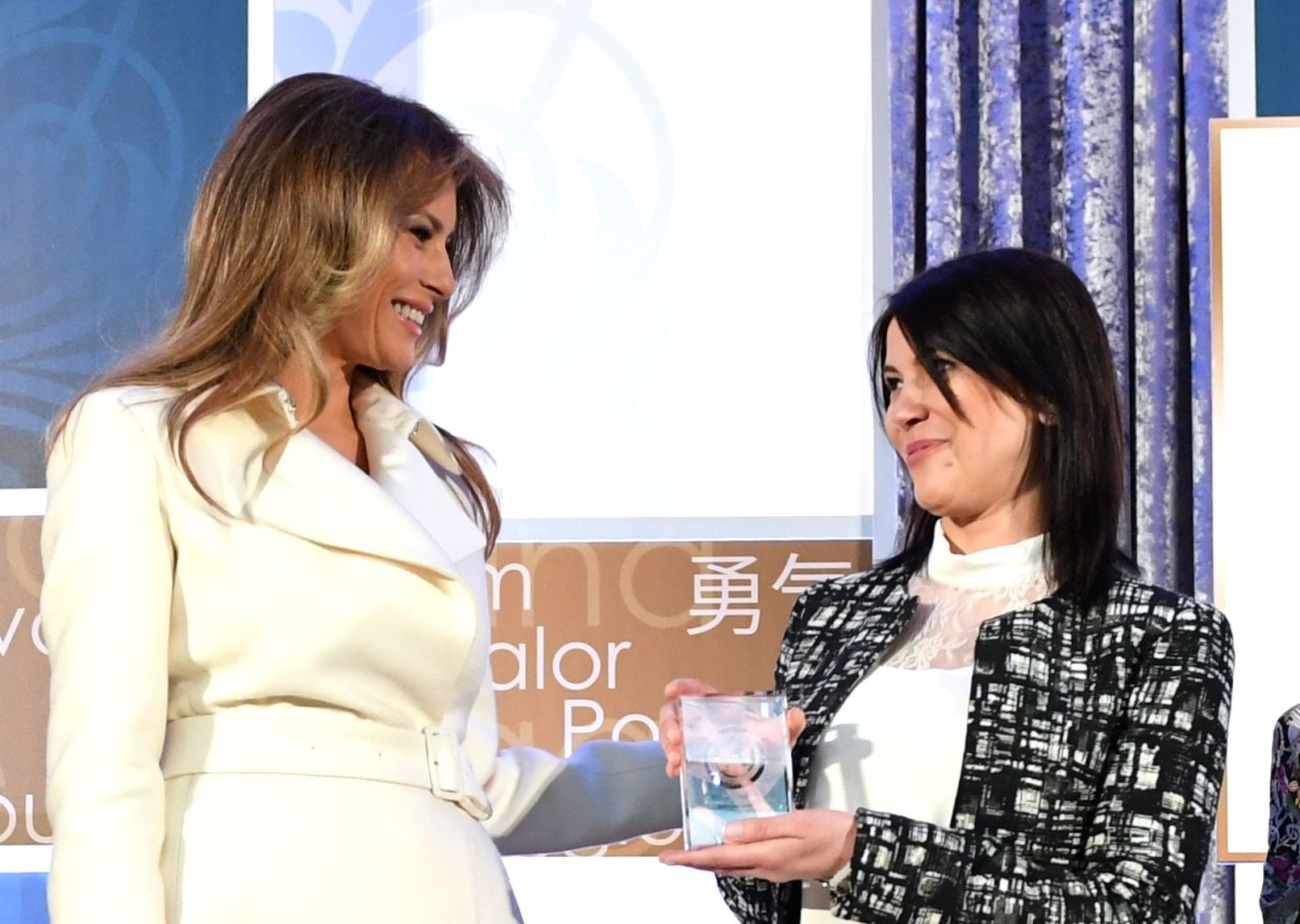 Saadet Ozkan at the International Women of Courage Awards 2017 First Lady Melania Trump presents the 2017 International Women of Courage Award on March 29, 2017. (photo is incorrectly labeled on Flickr) "Saadet Ozkan, born in 1978 in Izmir, is a former primary school teacher and a gender activist who has become a champion for victims of child abuse. Saadet received undergraduate degrees in Public Relations and Communications from Anadolu University in Eskisehir in 1995, followed by a teaching degree in 2004. She deliberately chose to work in a village school, believing she could make a difference that way. After uncovering a decades-long pattern of sexual abuse in the school, she forced a criminal investigation of her principal, persevering in the face of pressure to drop the case. When a serious car accident left her bed-ridden for several months, she organized support from the Izmir Bar Association and the Turkish Confederation of Women's Associations to help carry the case forward. She is now a private consultant still supporting the victims and their case, and hopes to establish an NGO that will fight child abuse." [1]